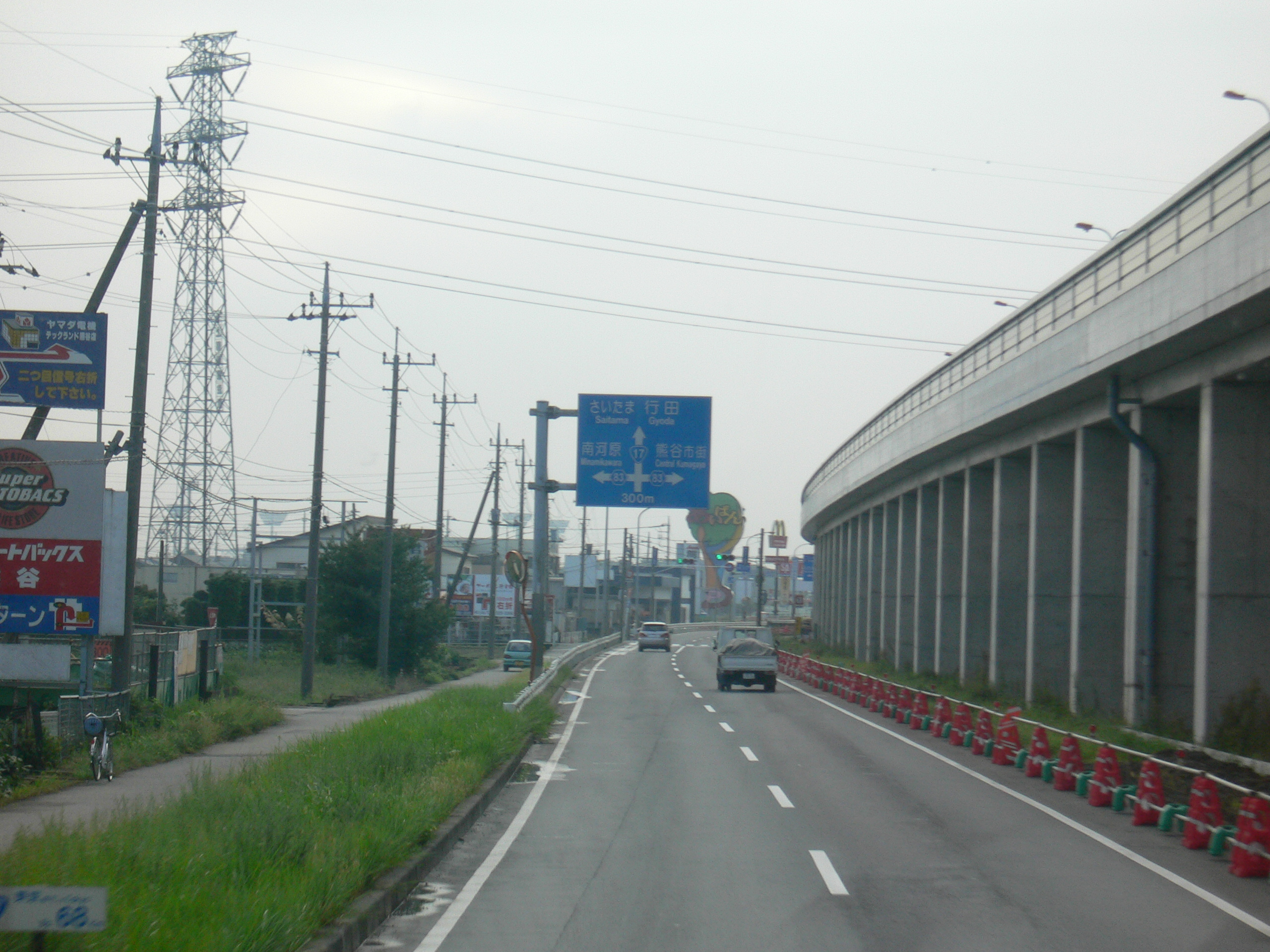 Route 17 (国道17号), Kumagaya C, Saitama P.